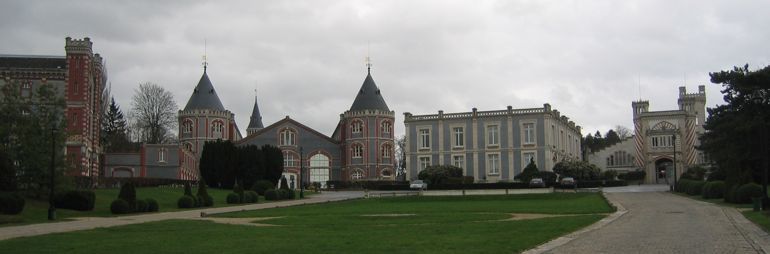 Overground facilities of Champagne Pommery in Reims